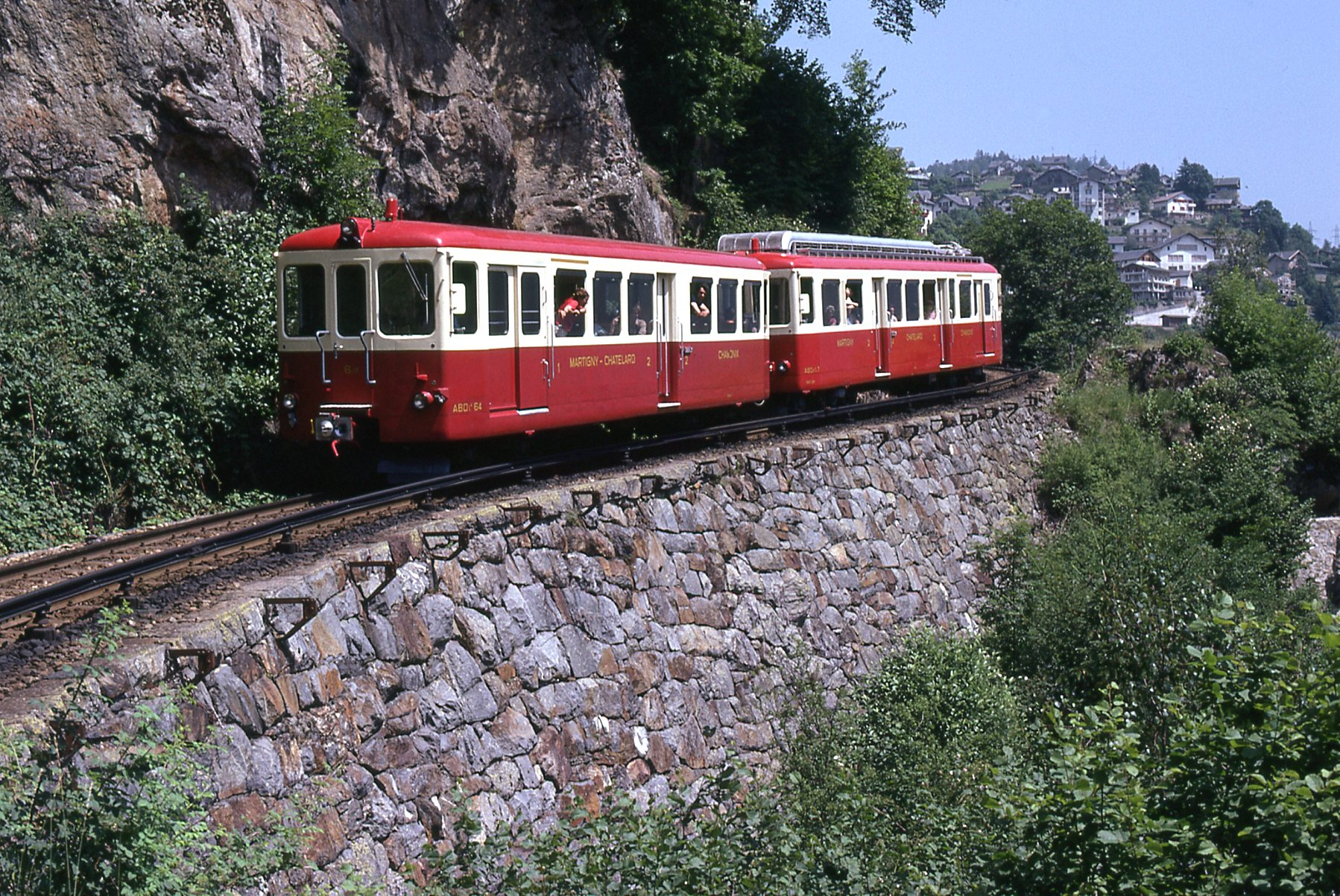 Photo: Trams aux Fils.